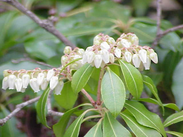 Species: Pieris japonica Family: Ericaceae Image No. 3